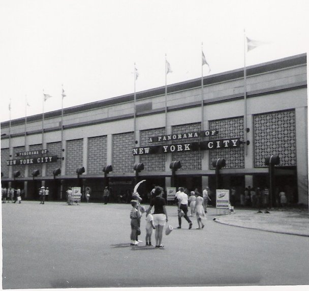 1964 New York World's Fair